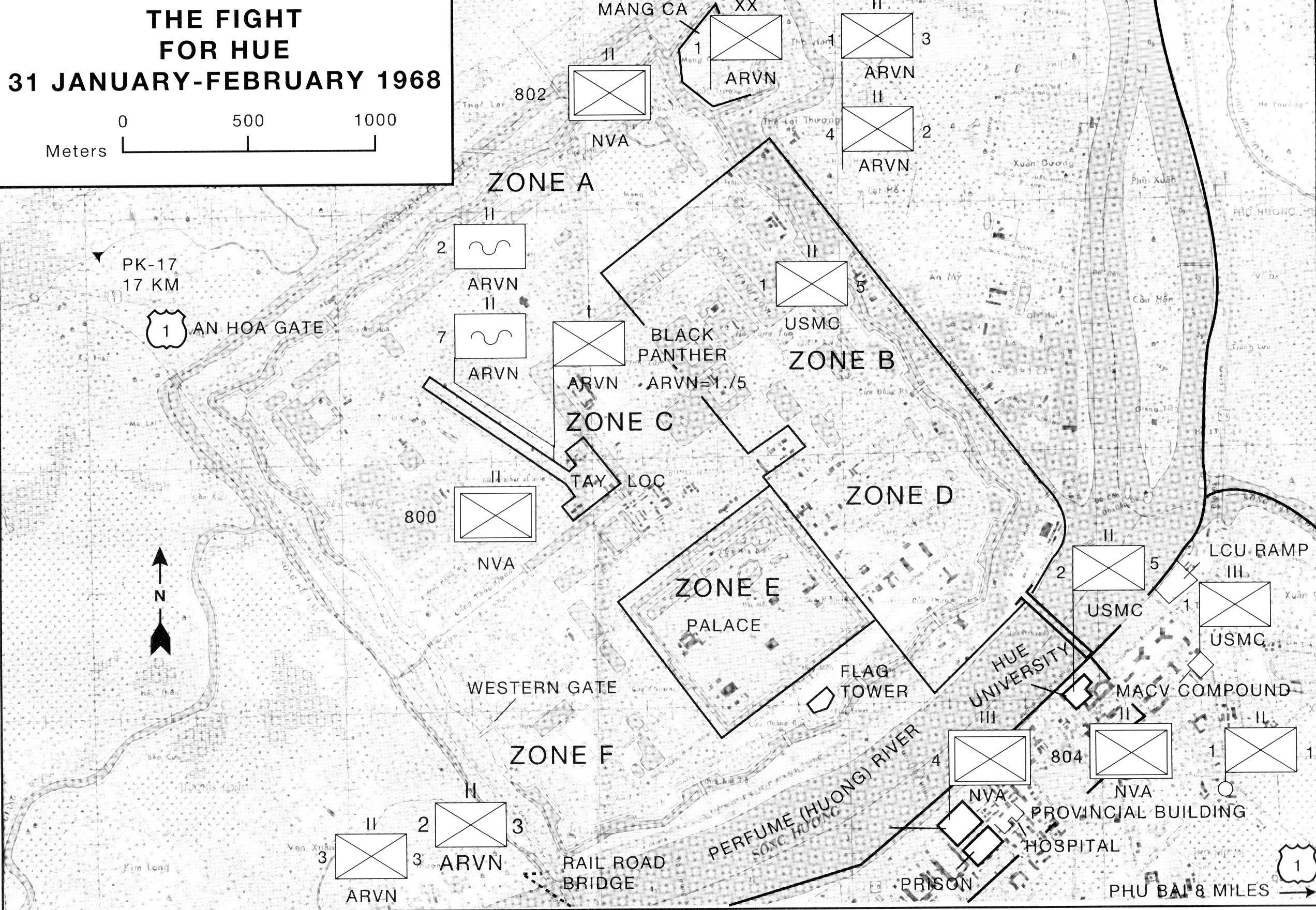 Map from the book U.S. Marines in Vietnam: 1968. Washington DC: Museums and Historical Division, U.S. Marine Corps, 1997.